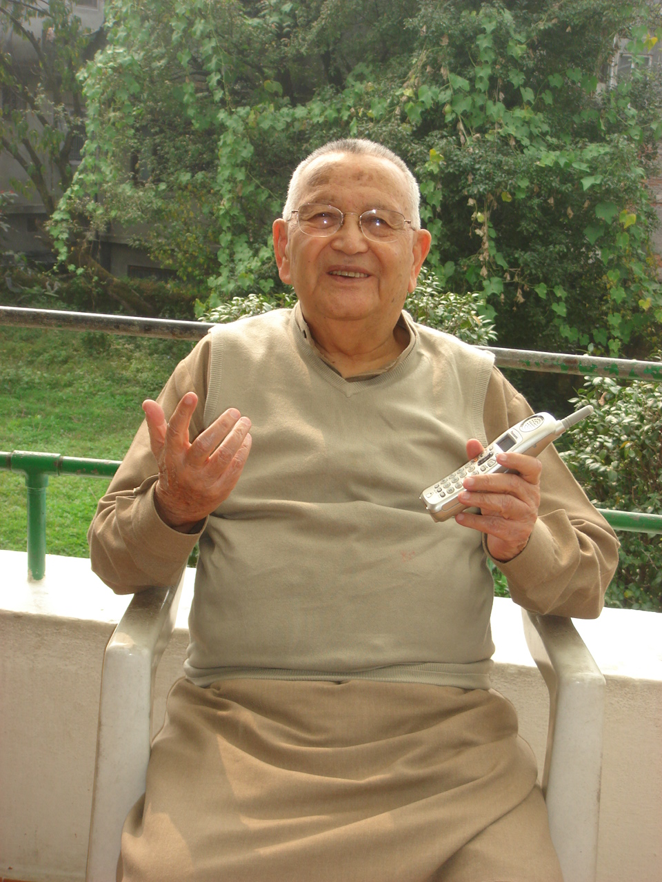 Surya Bahadur Thapa at home